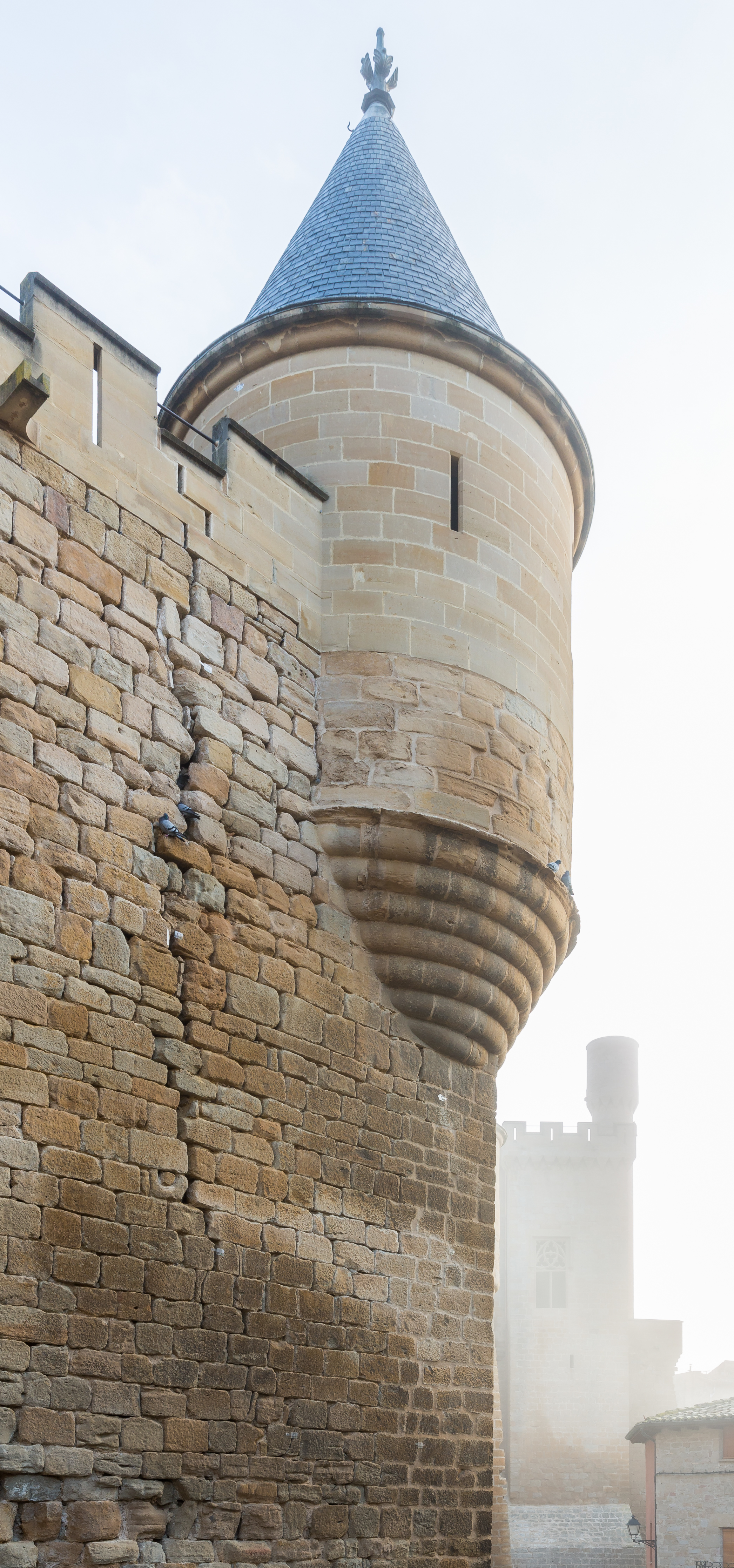 Royal Palace of Olite, Navarre, Spain